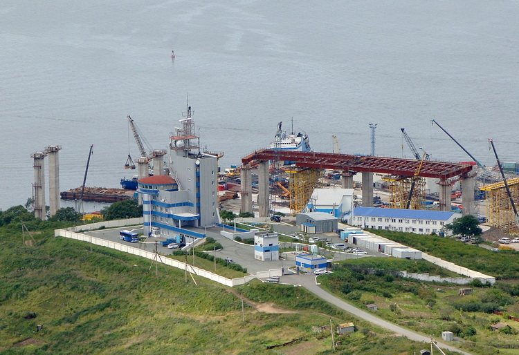 Construction of Russki Island Bridge